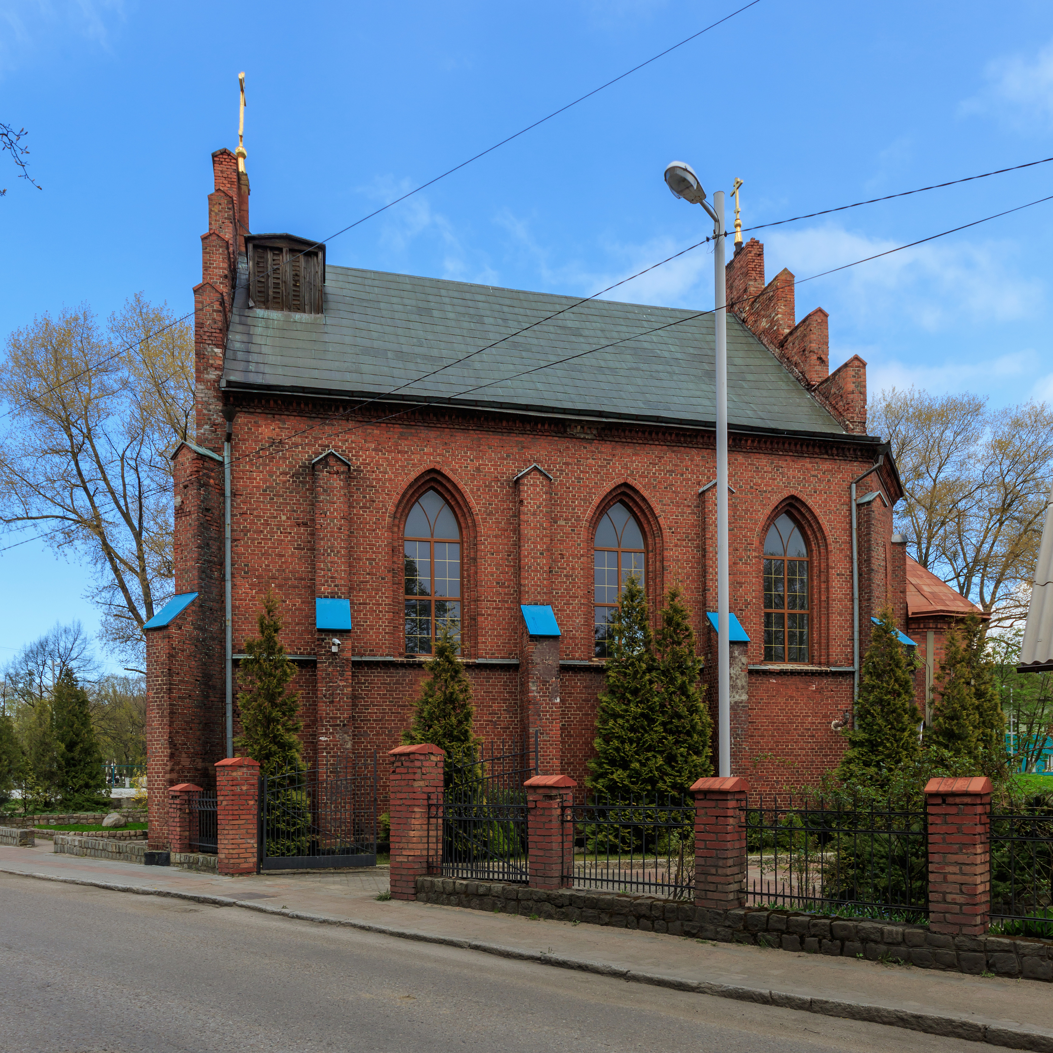 St. George Church in Baltiysk formerly Pillau / Kaliningrad Oblast (Russia).